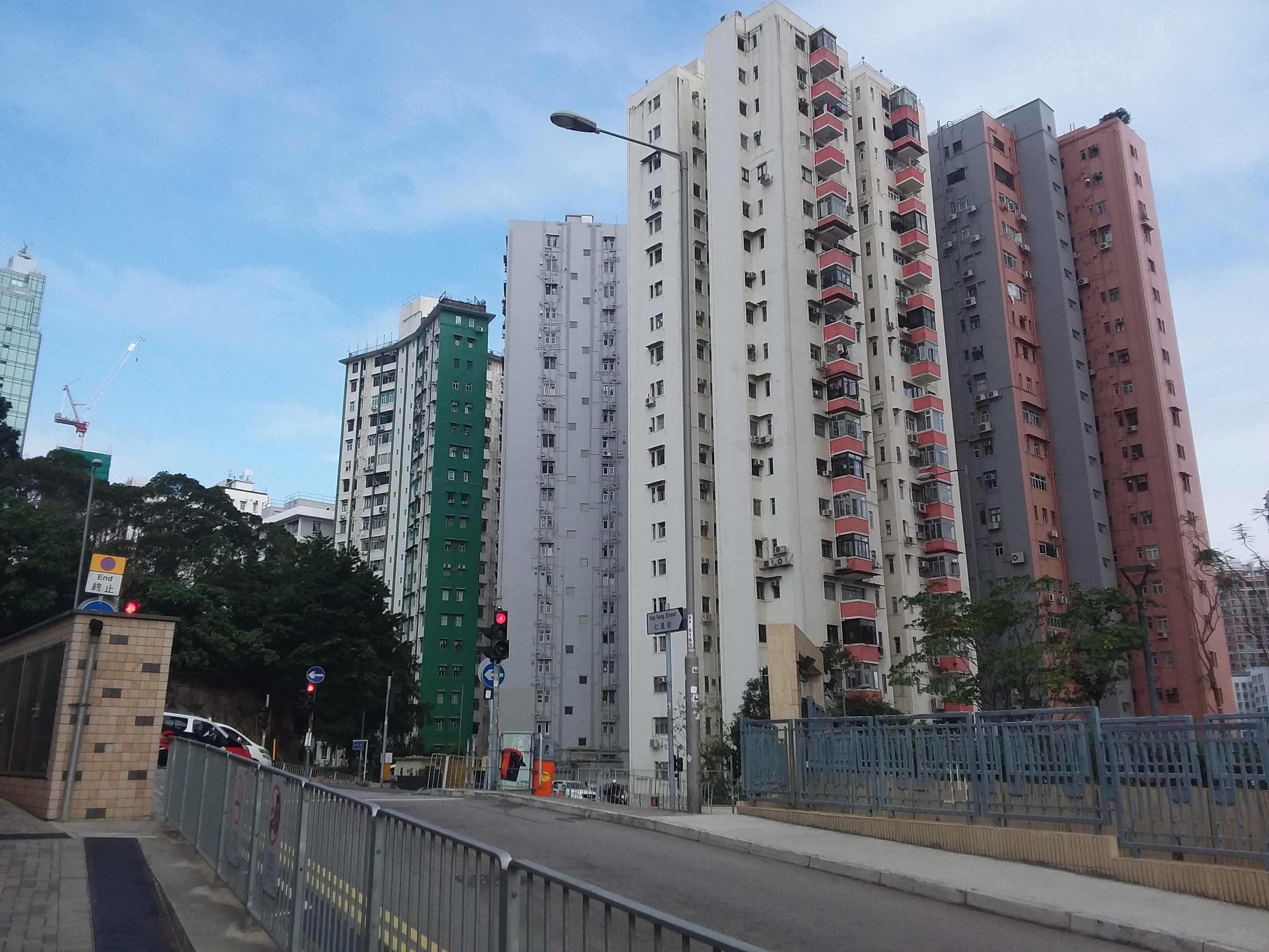 HK 何文田 Ho Man Tin 仁風街 Yan Fung Street in February 2019